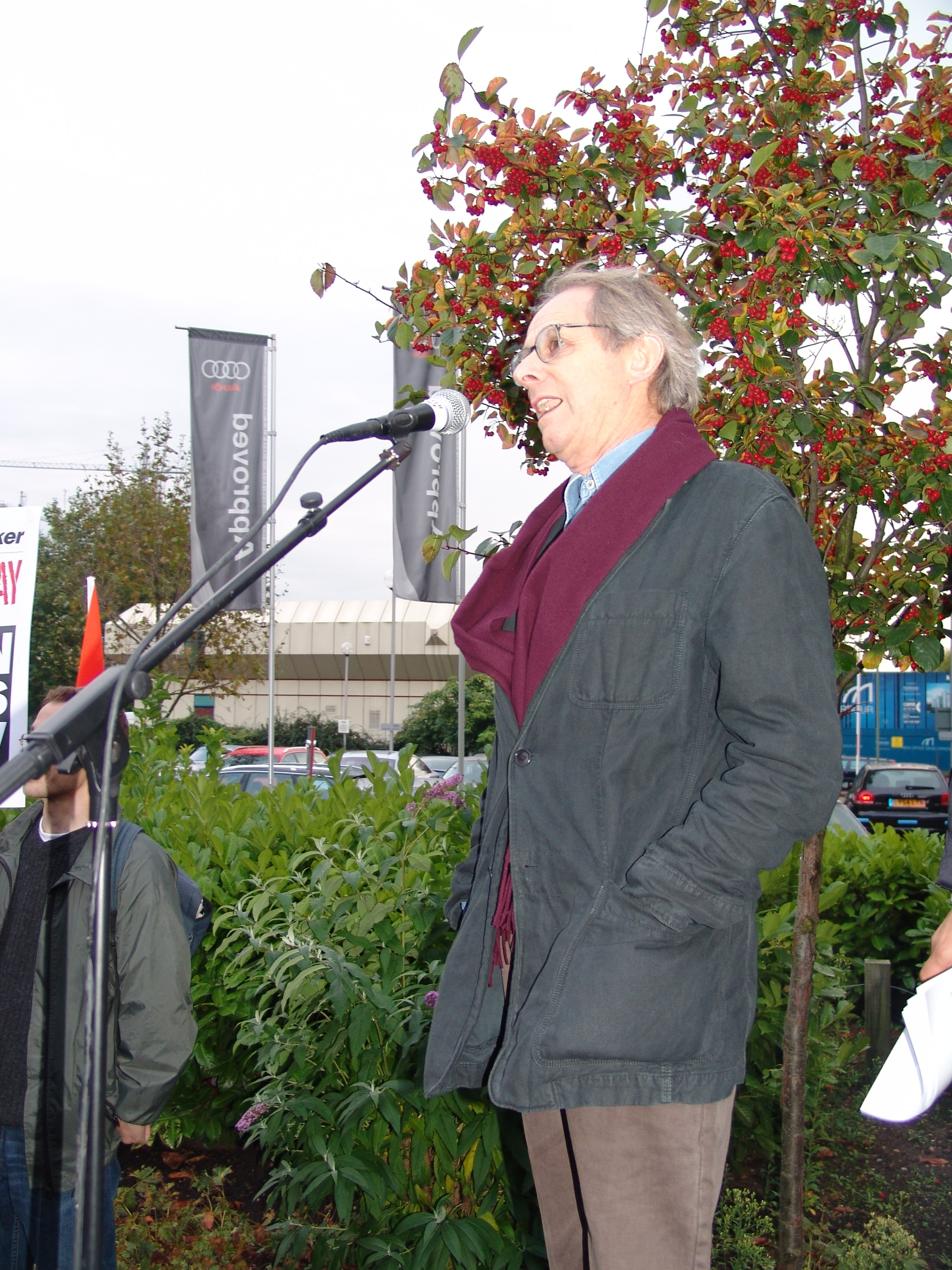 Ken Loach speaks at a rally for low-paid cleaners in London's docklands